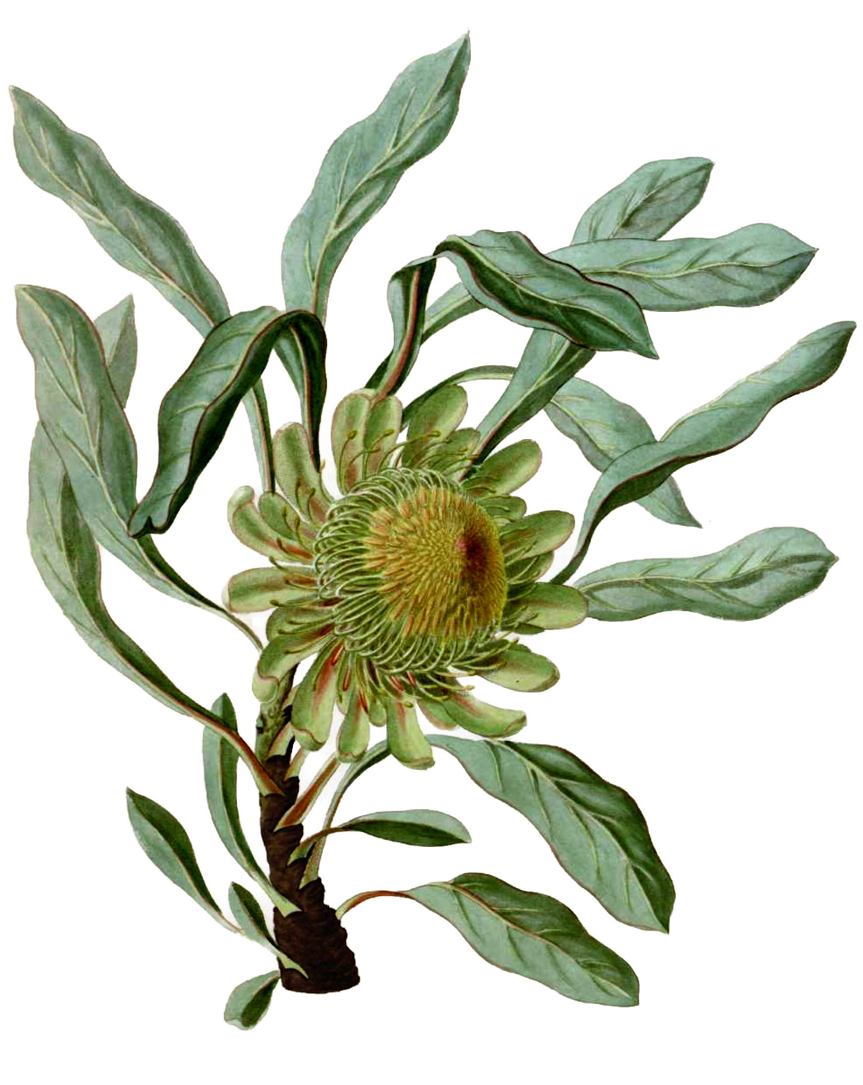 Part of the plate depicting Protea acaulos (as Protea glaucophylla) from t. 11, The Paradisus Londinensis. Original scan processed to improve colour and remove background of yellowed paper; cropped.